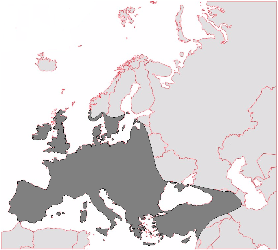 Hedera helix range (without ssp. canarensis = Hedera canarensis)